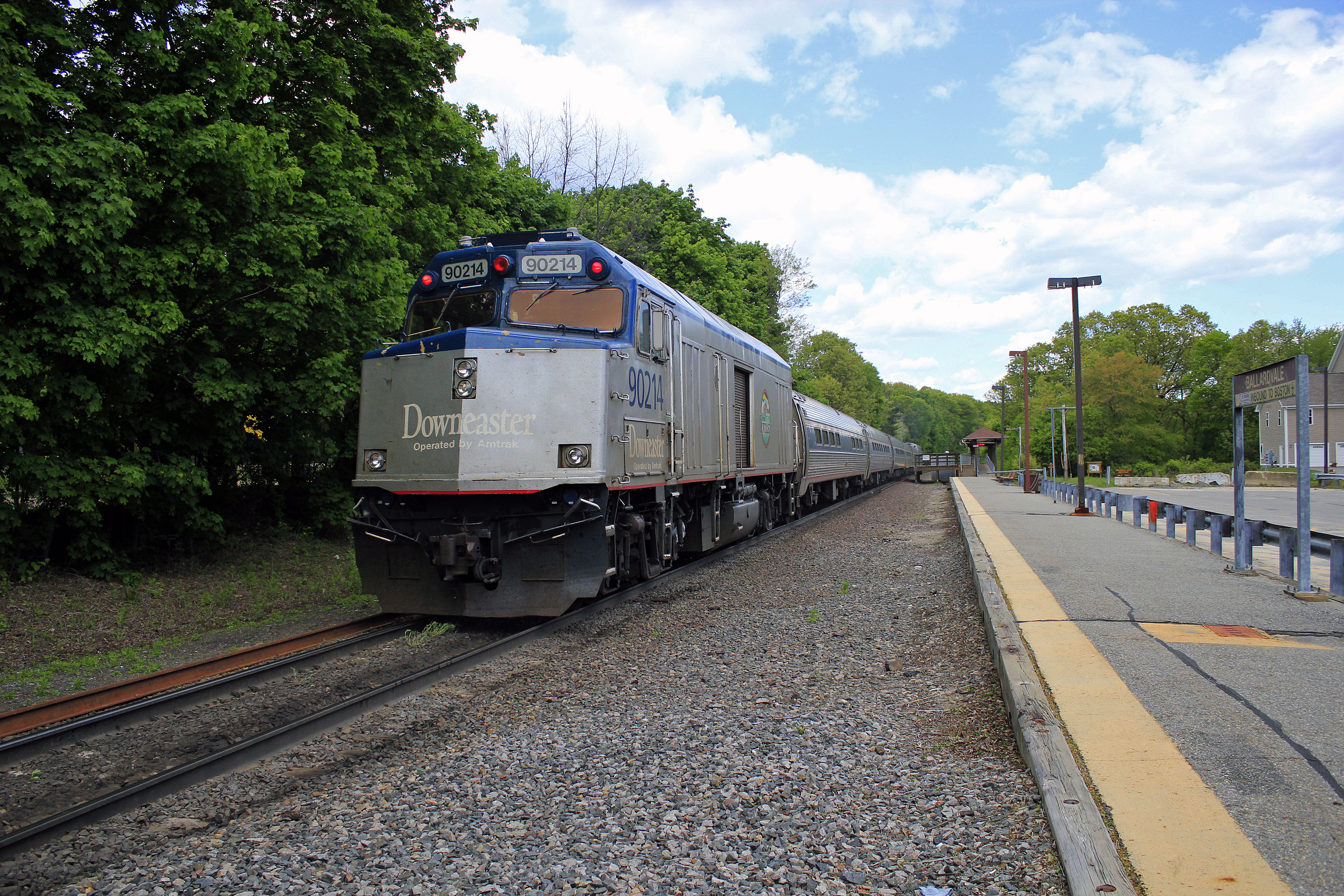 Downeaster bound for Portland, Maine passing though Ballardvale, Andover, Massachusetts